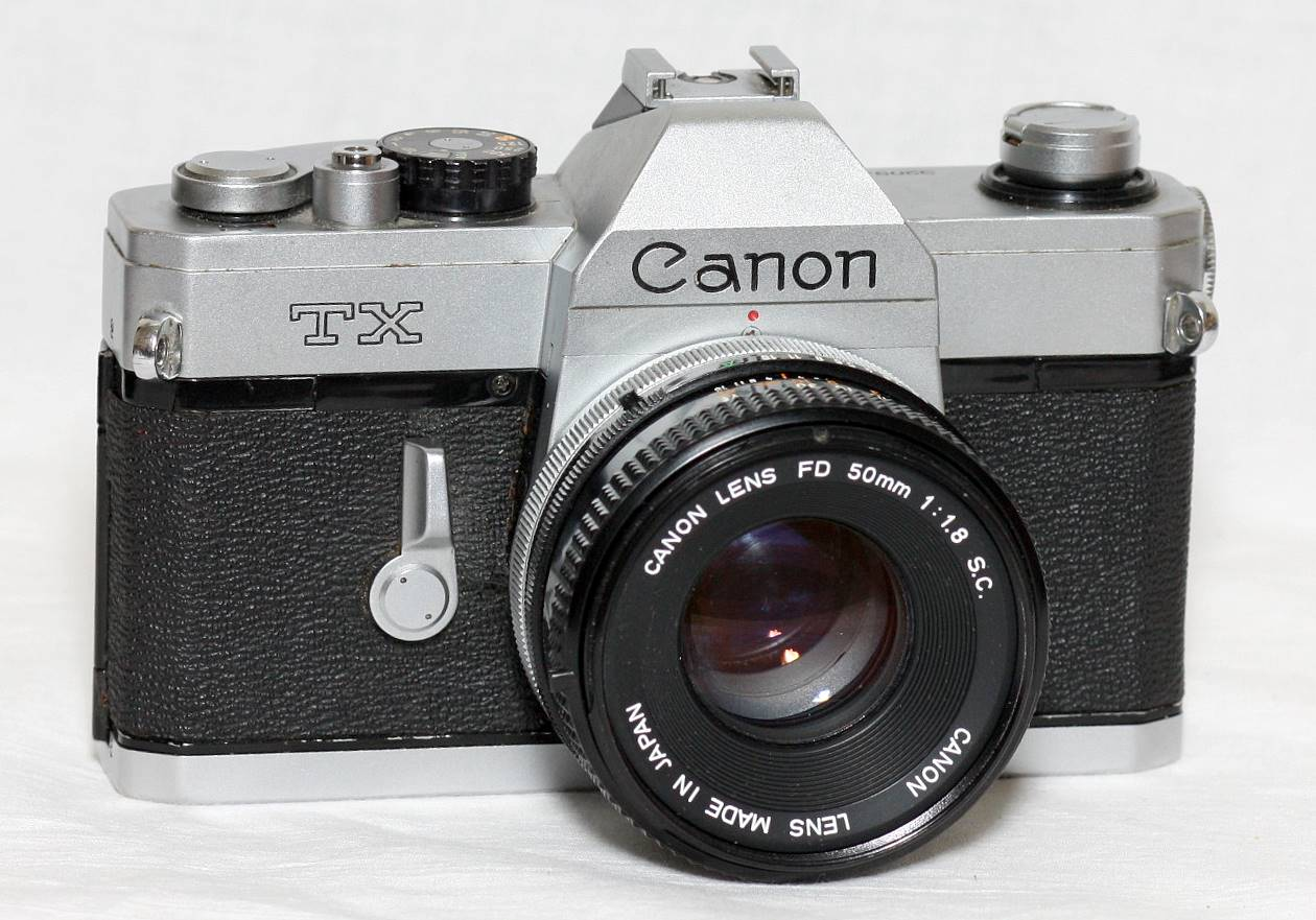 My Canon TX